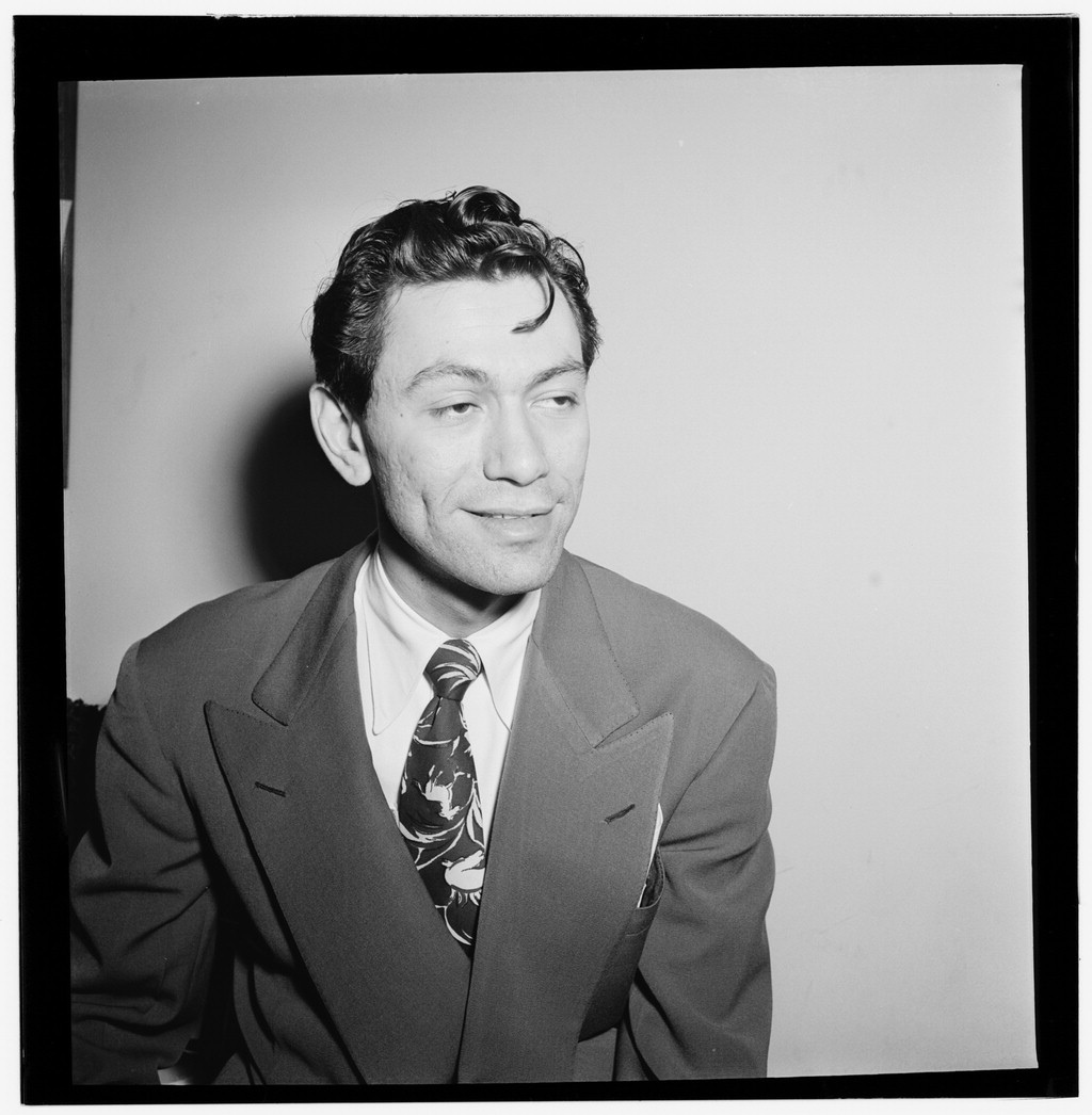 Herbie Fields, ca. February 1947. Photography by William P. Gottlieb